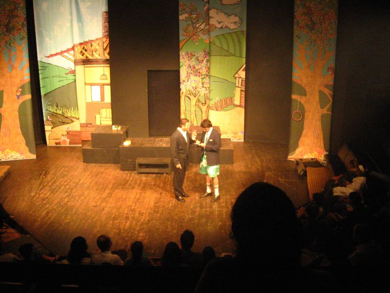 A play performance at Prithvi Theatre, Mumbai.